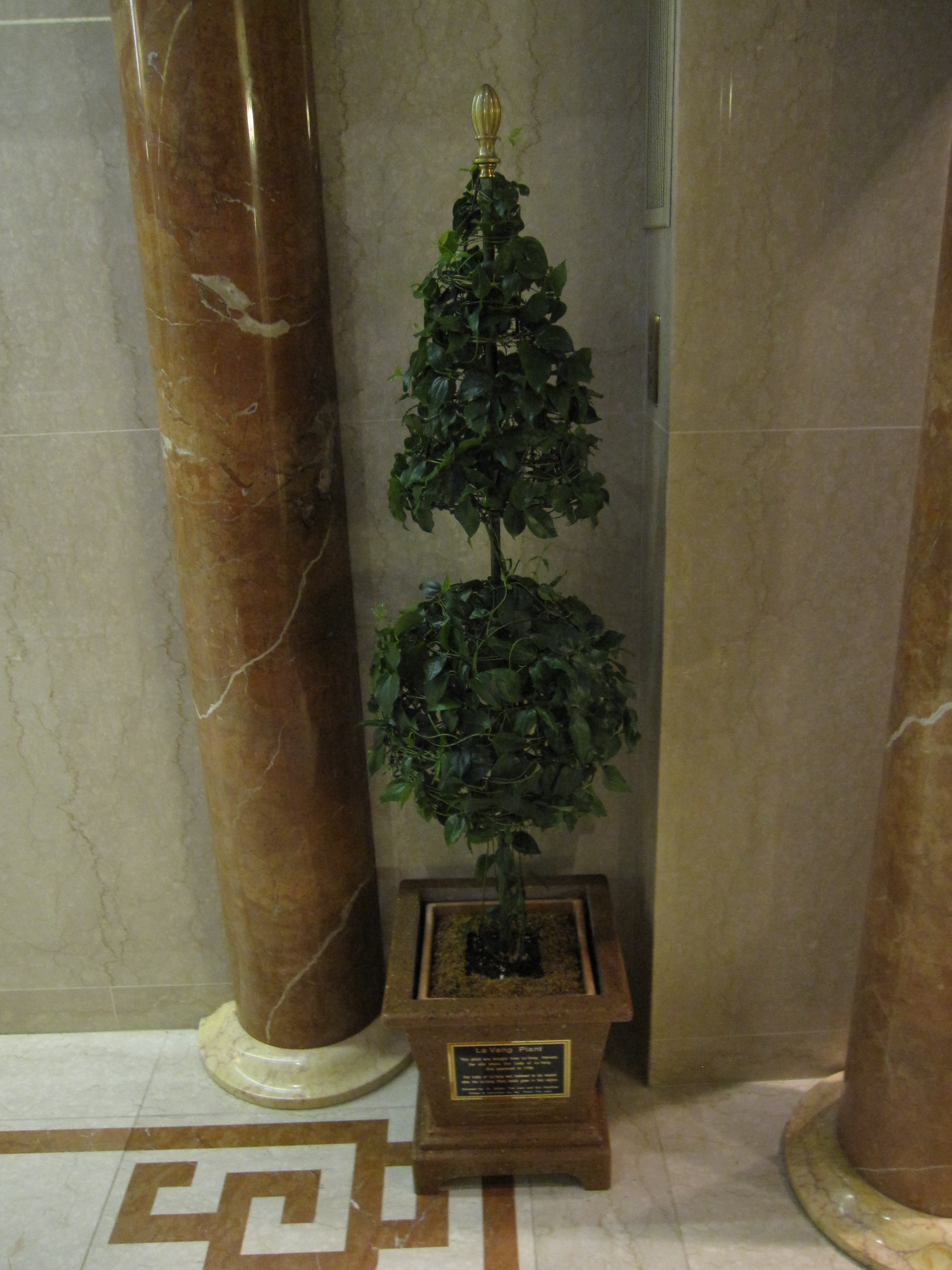 This plant was brought from La Vang, Vietnam. Our Lady of La Vang was believed to be named after the La Vang plant which grew in the region. Donated by Fr. Quinn, the Lam and Bui families. Potted and decorated by Mr. Tinh The Lam. Interior of the Basilica of the National Shrine of the Immaculate Conception in Washington, D.C.